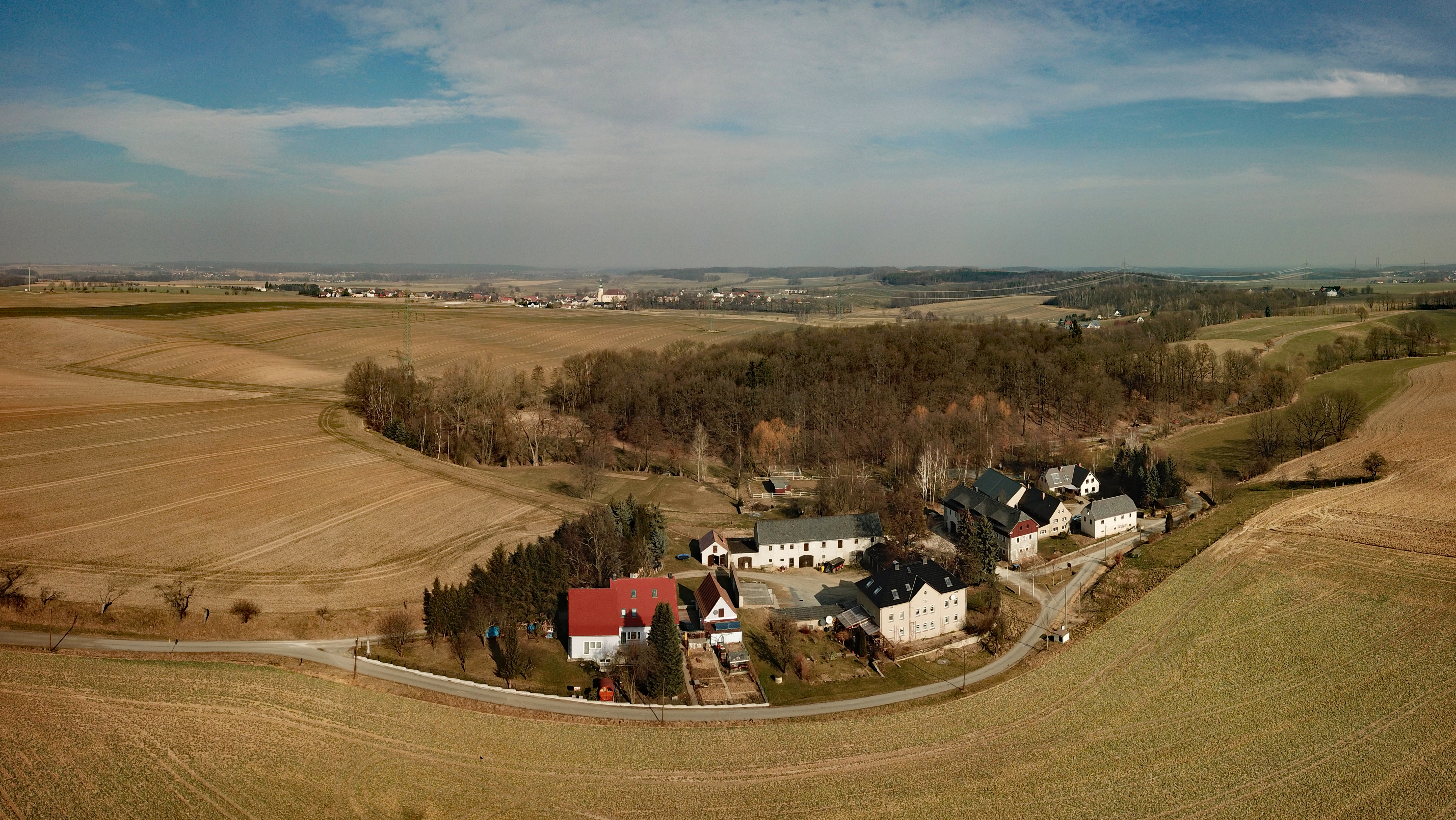 Kopschin (Crostwitz, Saxony, Germany) Hornjoserbsce: Powětrowy wobraz Kopšina